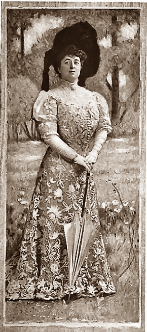 Actress Truly Shattuck